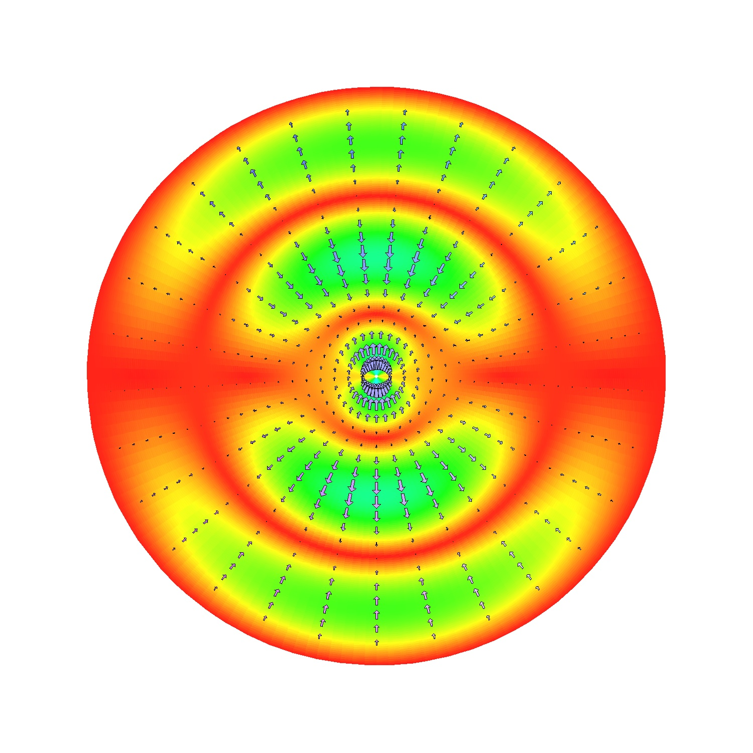 Plot of E and H fields on the TEnl mode defined by n and l.